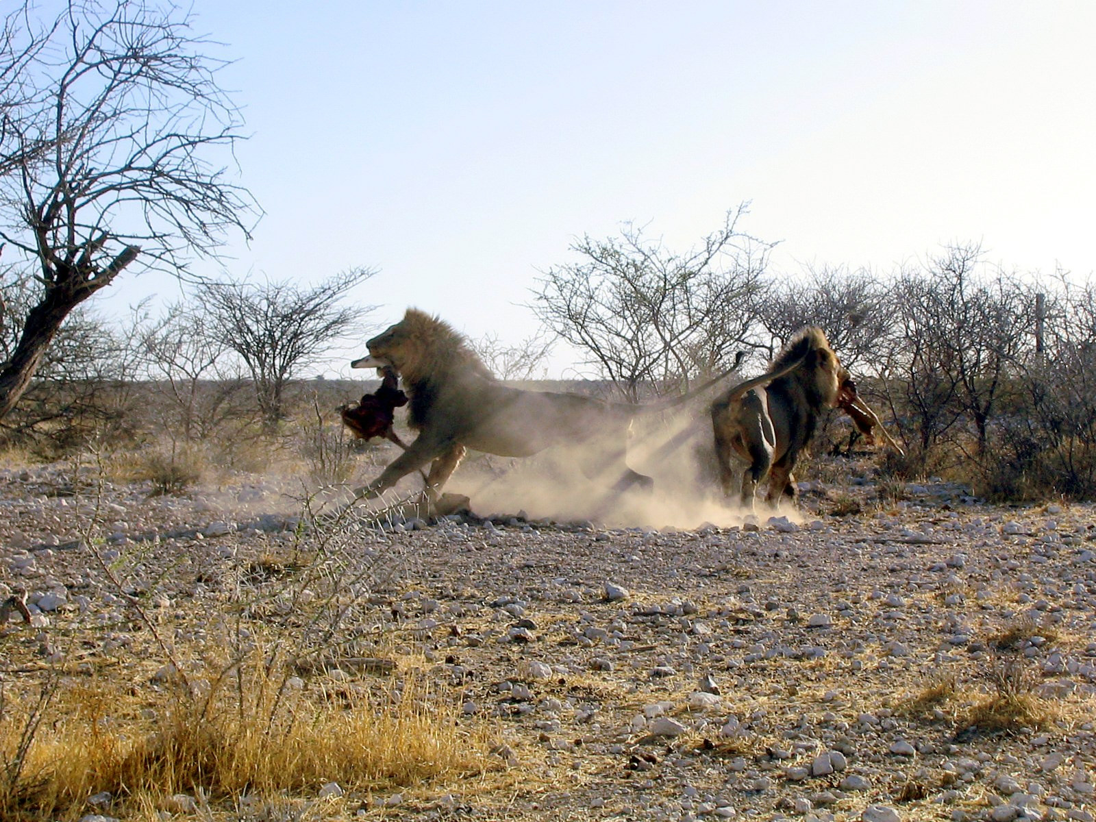 Male lions fight for the prey in the Etosha National Park